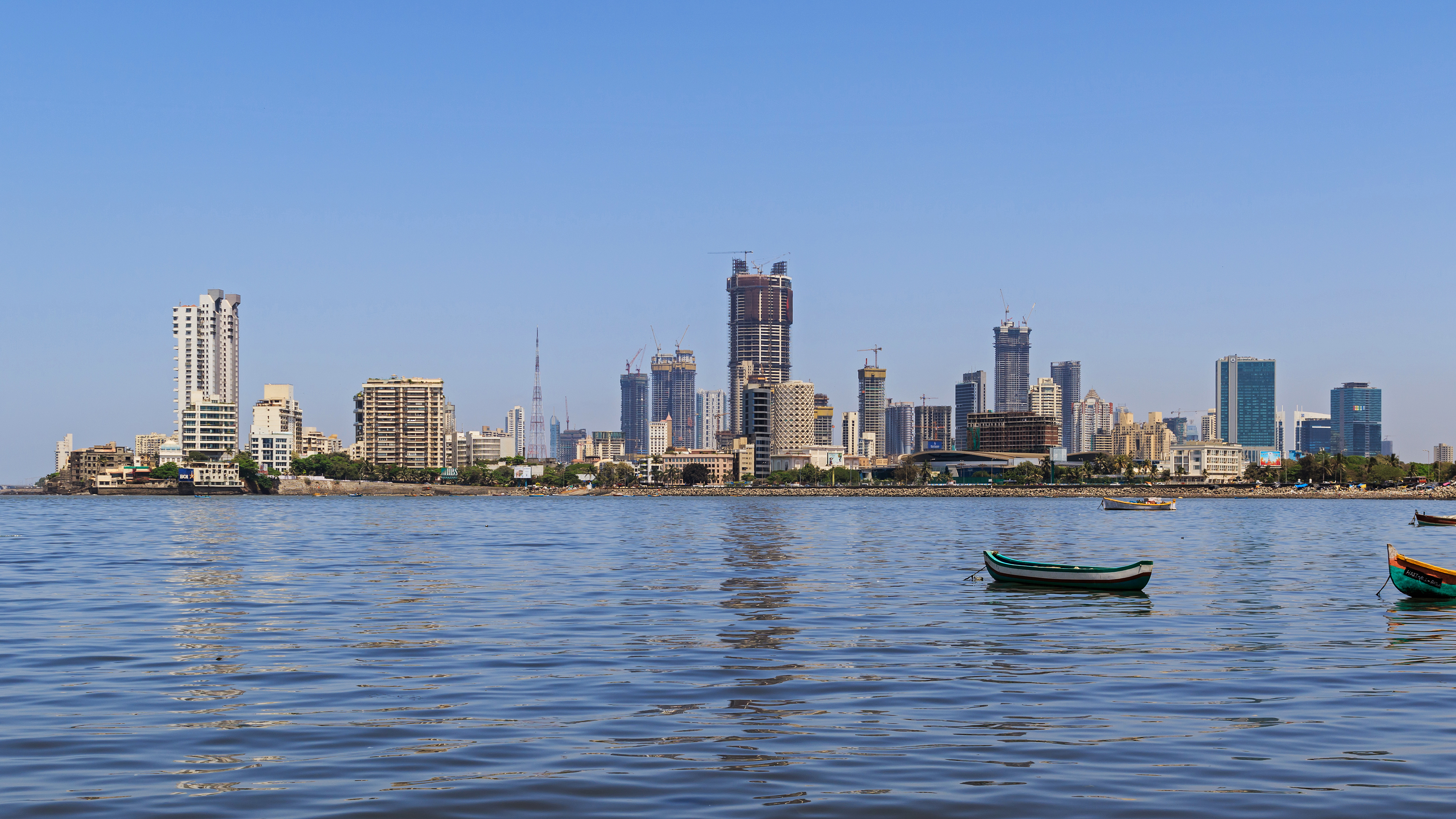 View towards Lotus Colony in Mumbai, India